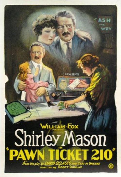 This is a poster for the 1922 American silent drama film Pawn Ticket 210.